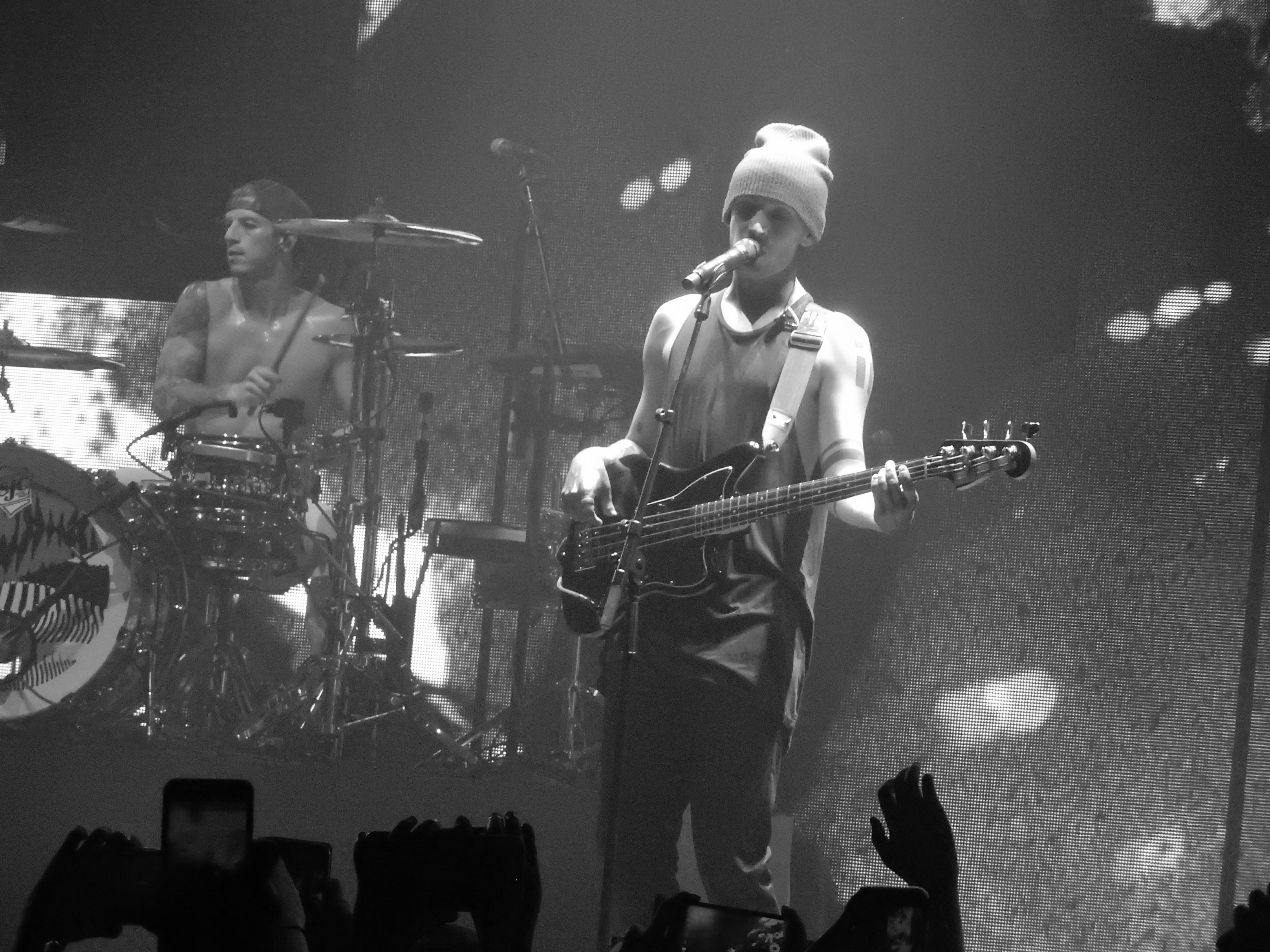 Twenty One Pilots, Alexandra Palace, London